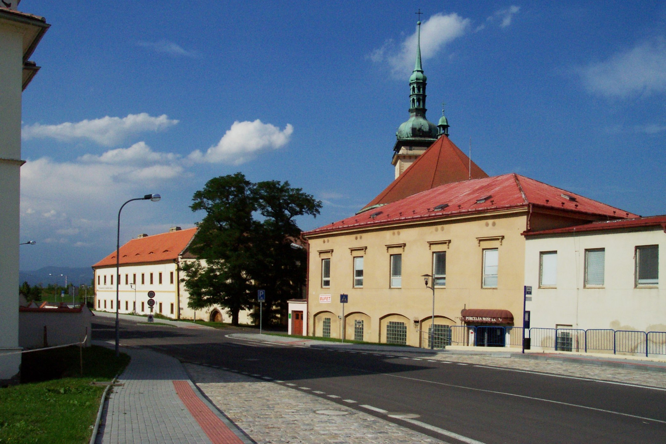 The only street of the old Most that remained - Jediná ulice Starého Mostu, která se dochovala dodnes